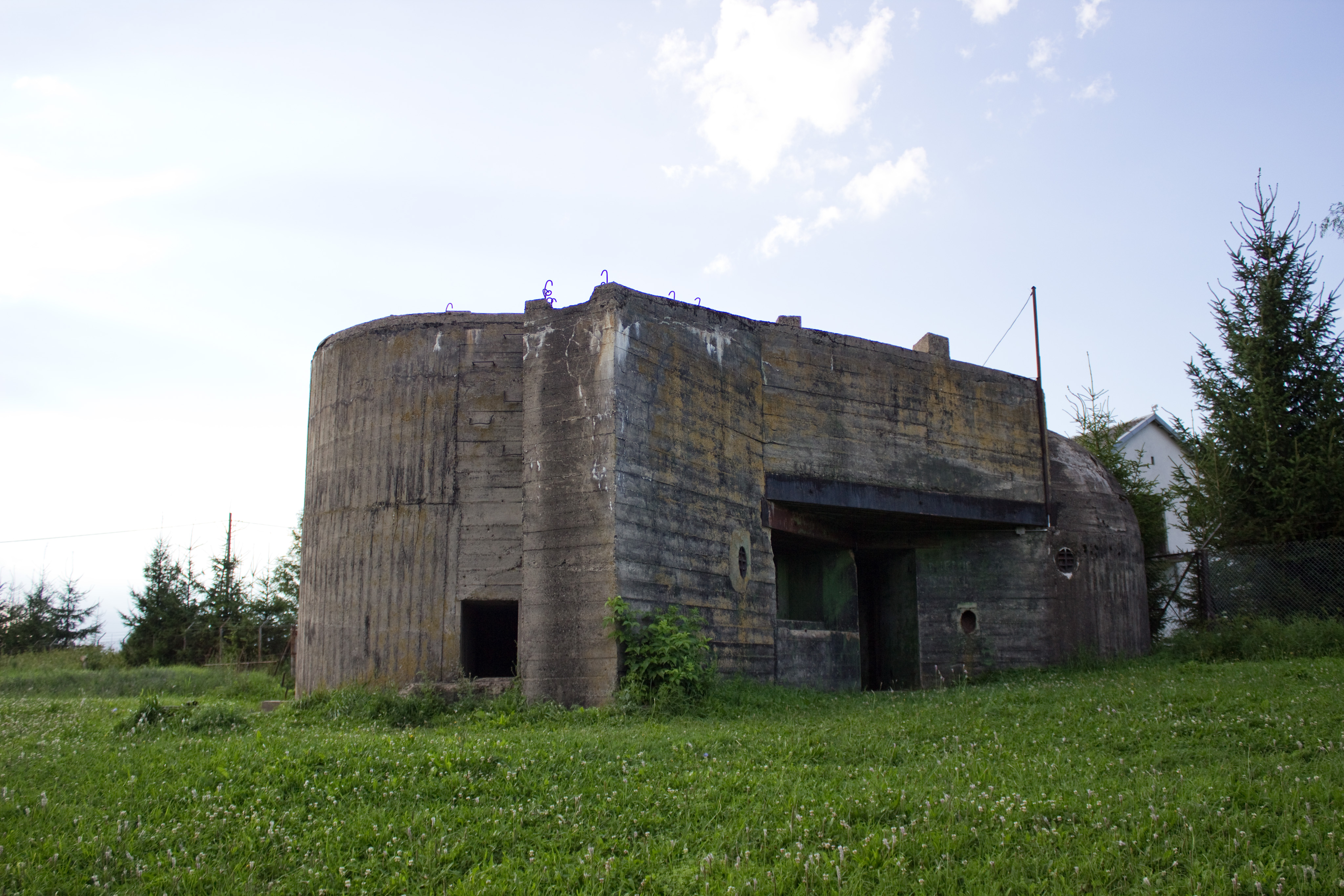 Bunker, Martiany, gmina Kętrzyn, powiat kętrzyński, Warmian-Masurian Voivodeship